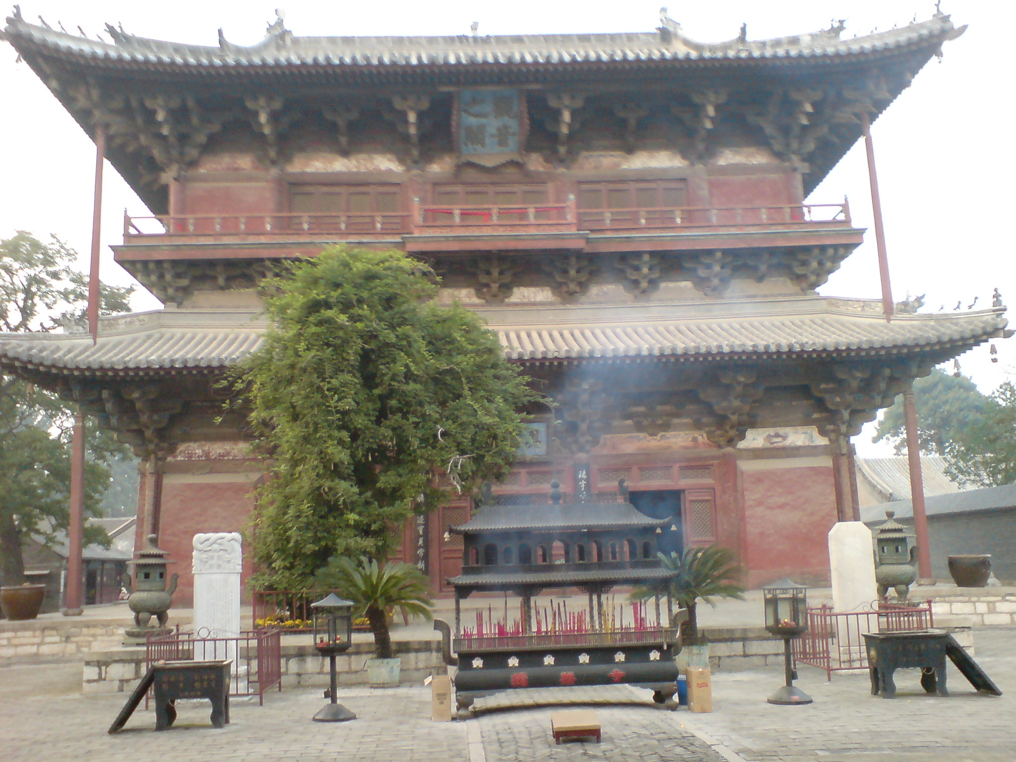 Guanyin Pavilion of the Dule Temple, Ji County, Tianjin, China